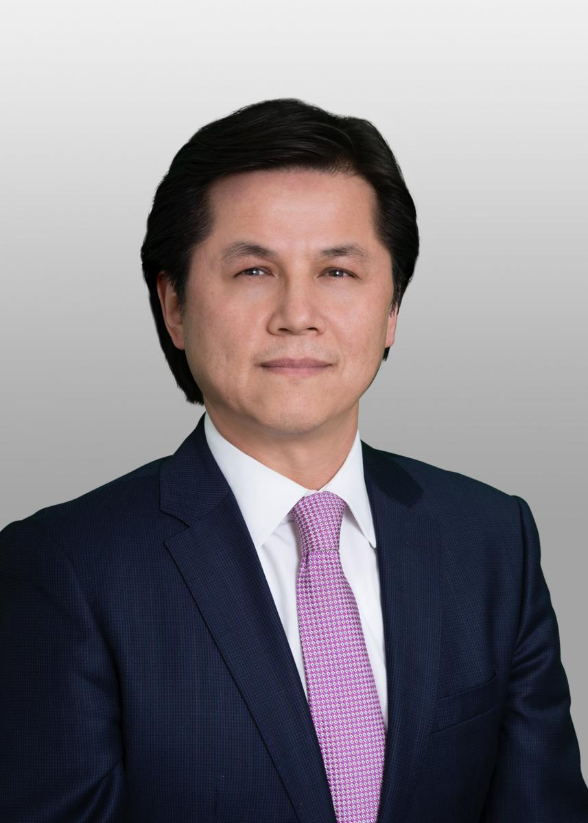 Commissioner Nury A. Turkel, United States Commission on International Religious Freedom